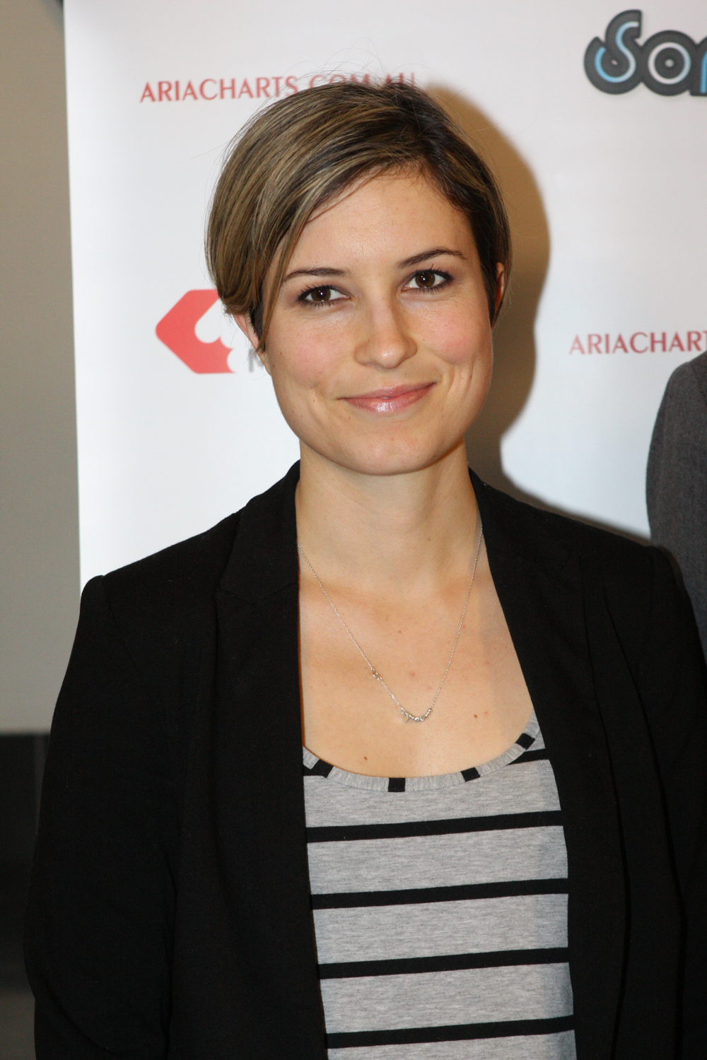 Missy Higgins at the ARIA No. 1 Chart Awards in Sydney, Australia.